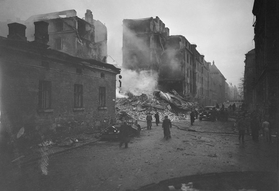 Lönnrotinkatu Street in Helsinki after the bombing in the Winter War - in winter 1939–1940.